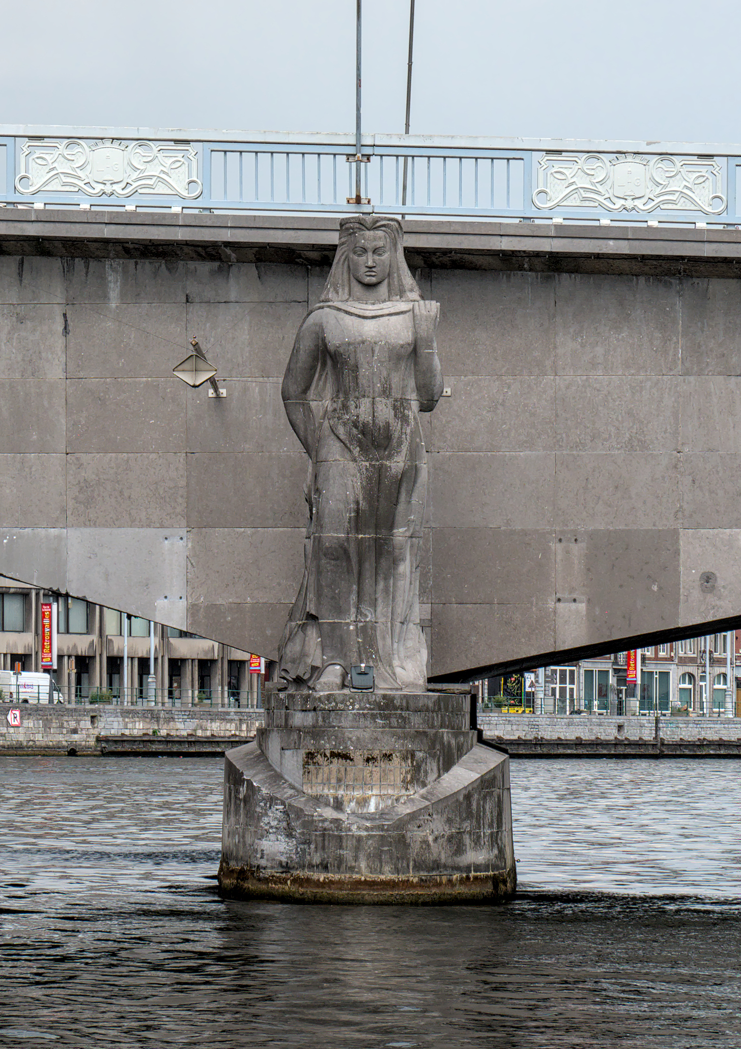 Statue under Pont des Arches in Liège, Belgium